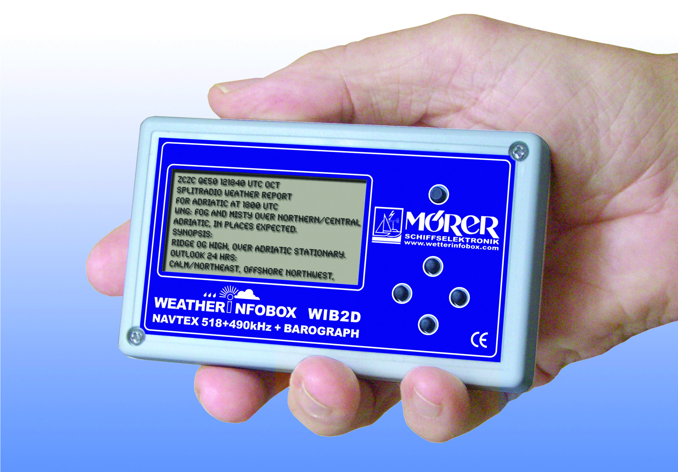 The WIB2D, a portable NAVTEX-Receiver and Barograph with Display from the Weatherinfobox product line